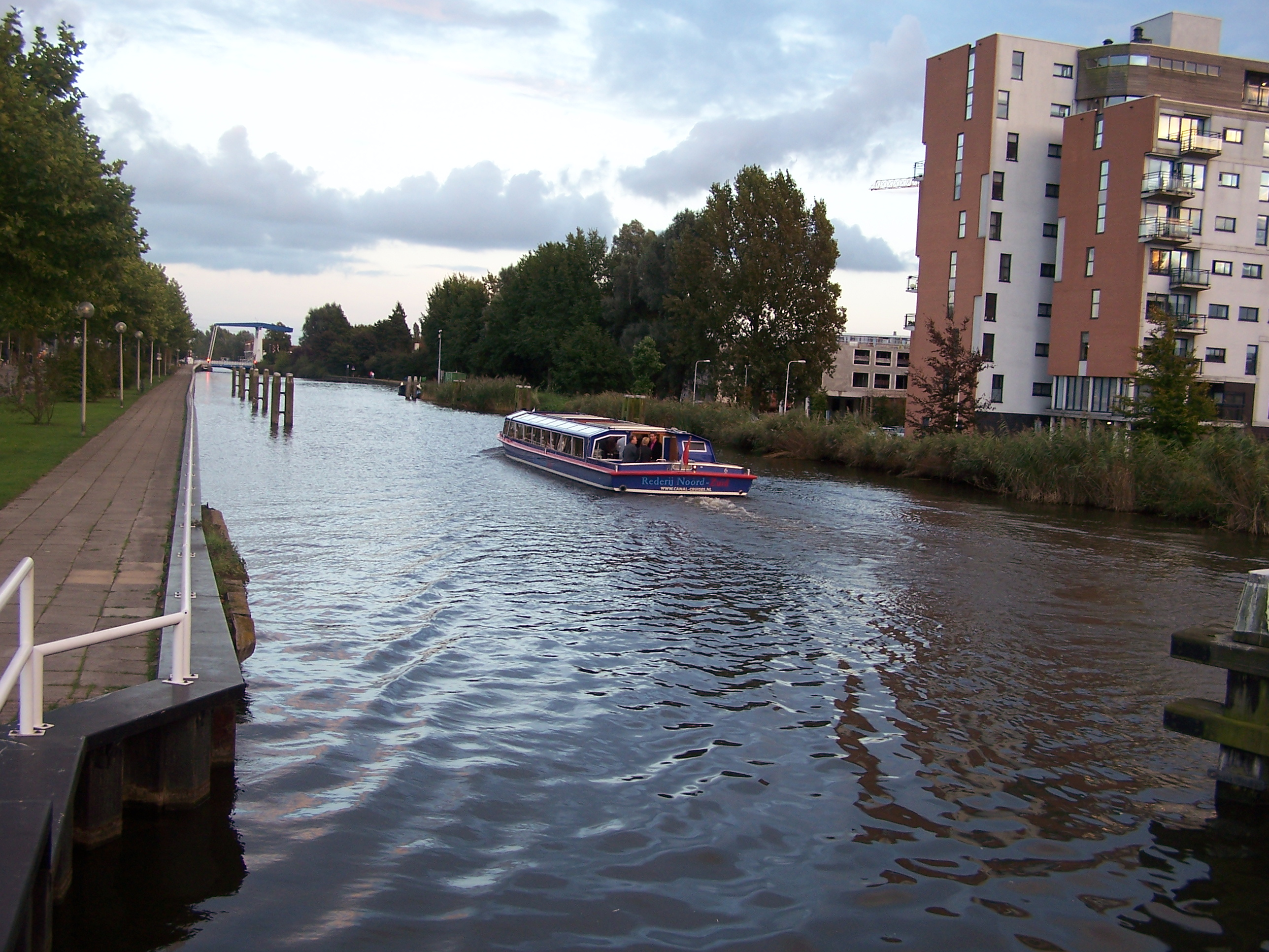 This picture shows the Weespertrekvaart, a canal in Diemen. Author: Mig de Jong